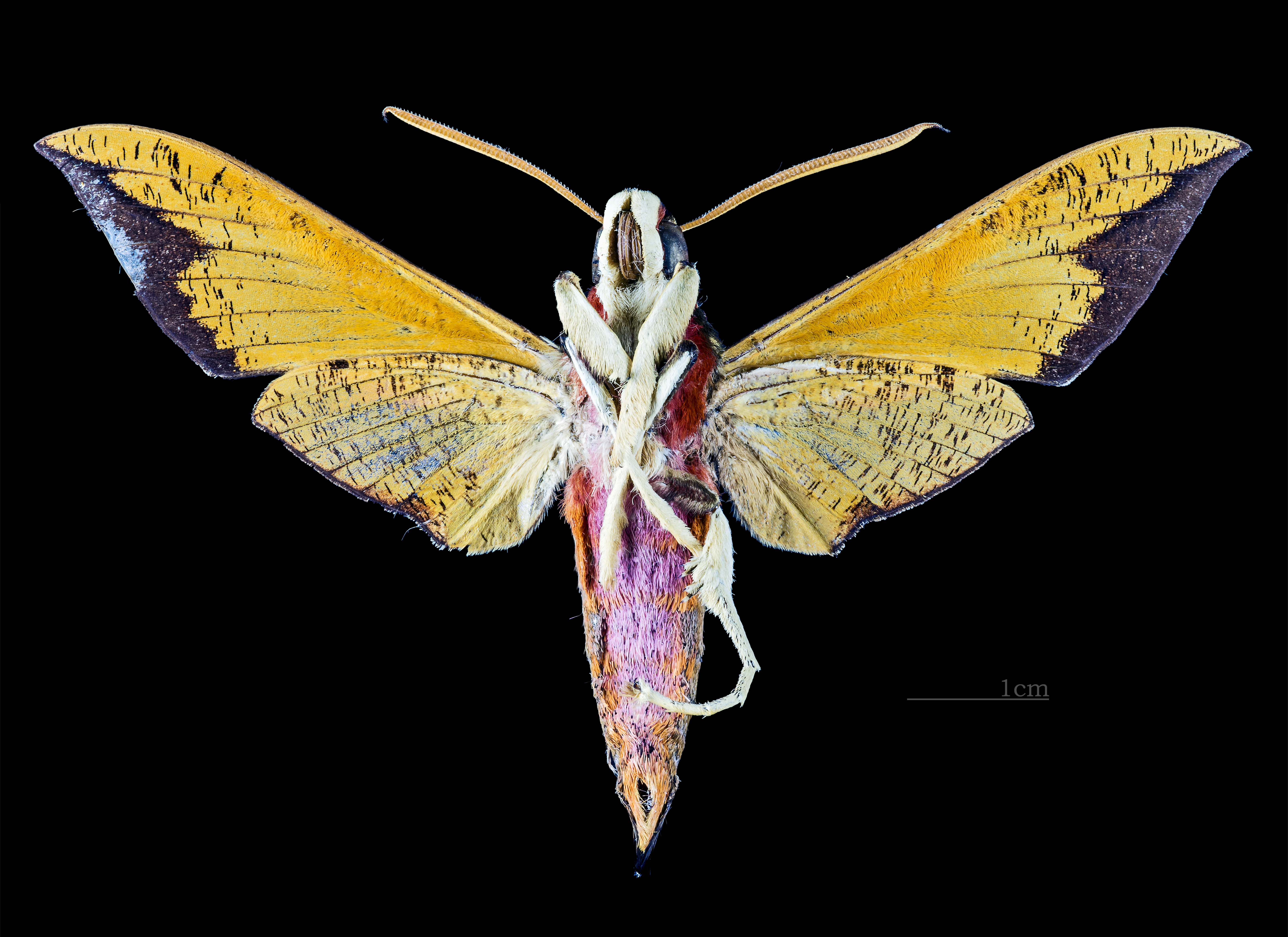 Gnathothlibus brendelli - △ Ventral side Collection of the Mathematician Laurent Schwartz